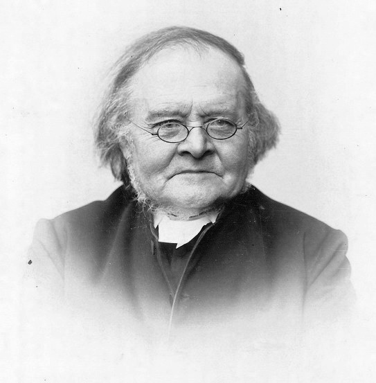 Original photograph in the collections of Akademiska Föreningens Arkiv & Studentmuseum. Cropped and converted to greyscale by User:Riggwelter